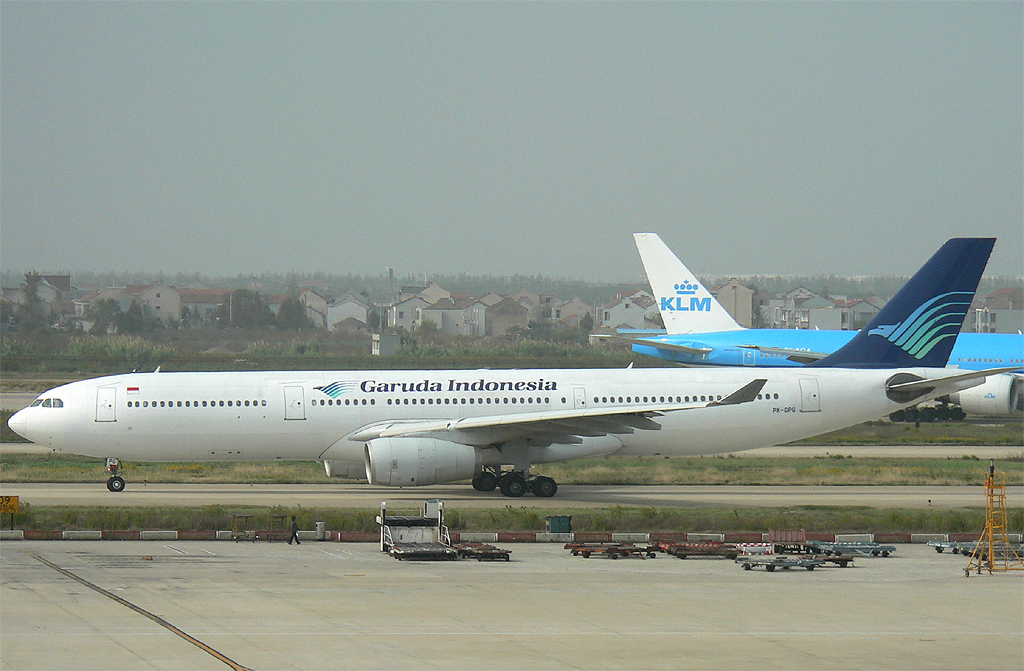 Garuda Indonesia Airbus A330-300 at the Shanghai Pudong International Airport